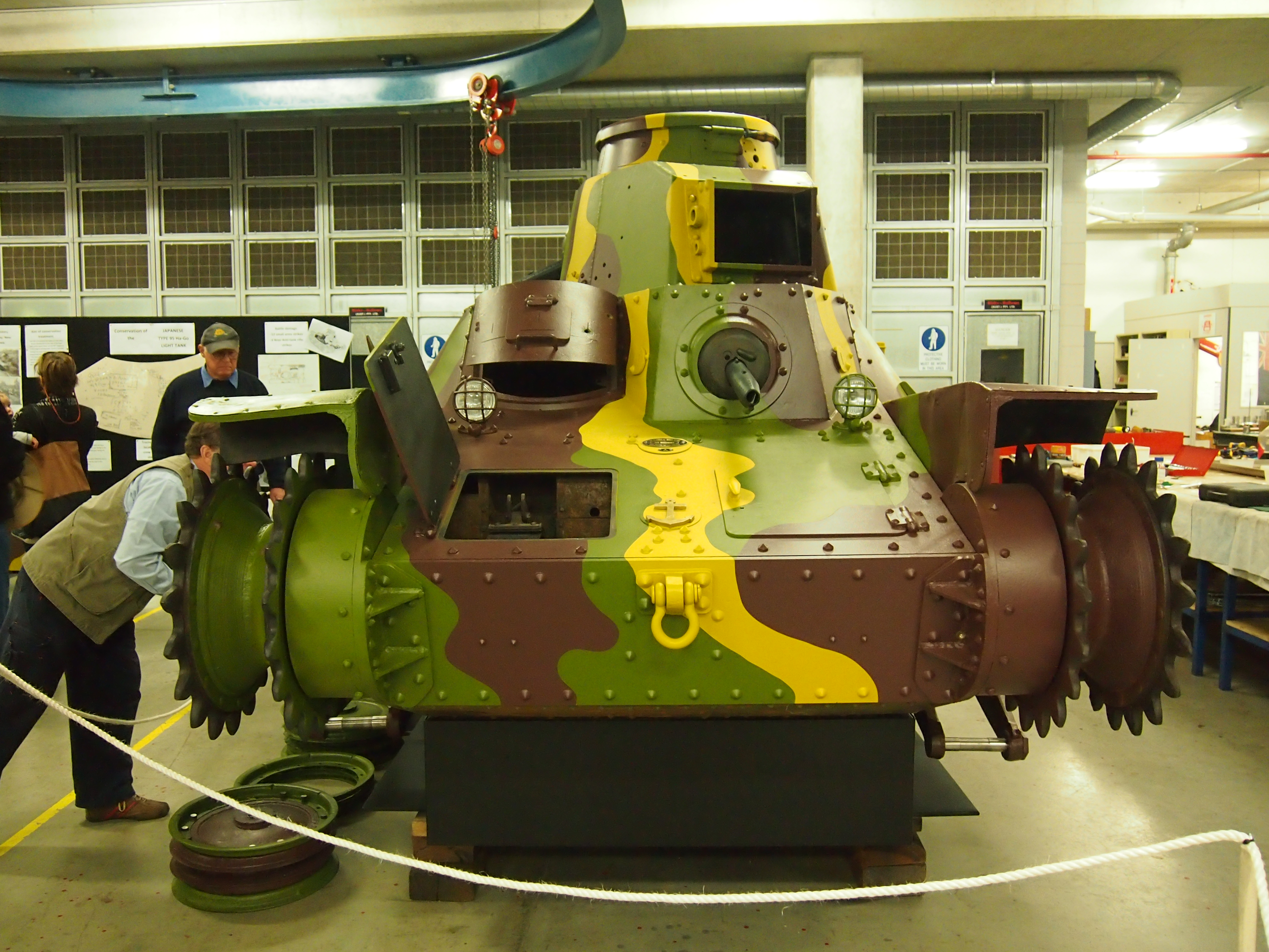 One of the two Type 95 tanks which were captured at the Battle of Milne Bay under restoration at the Australian War Memorial's Treloar Technology Centre in September 2012.